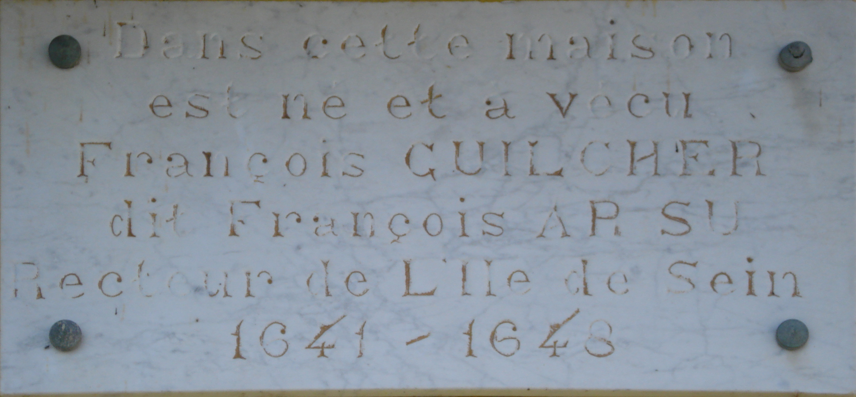 Plaquette recteur de l'île de Sein